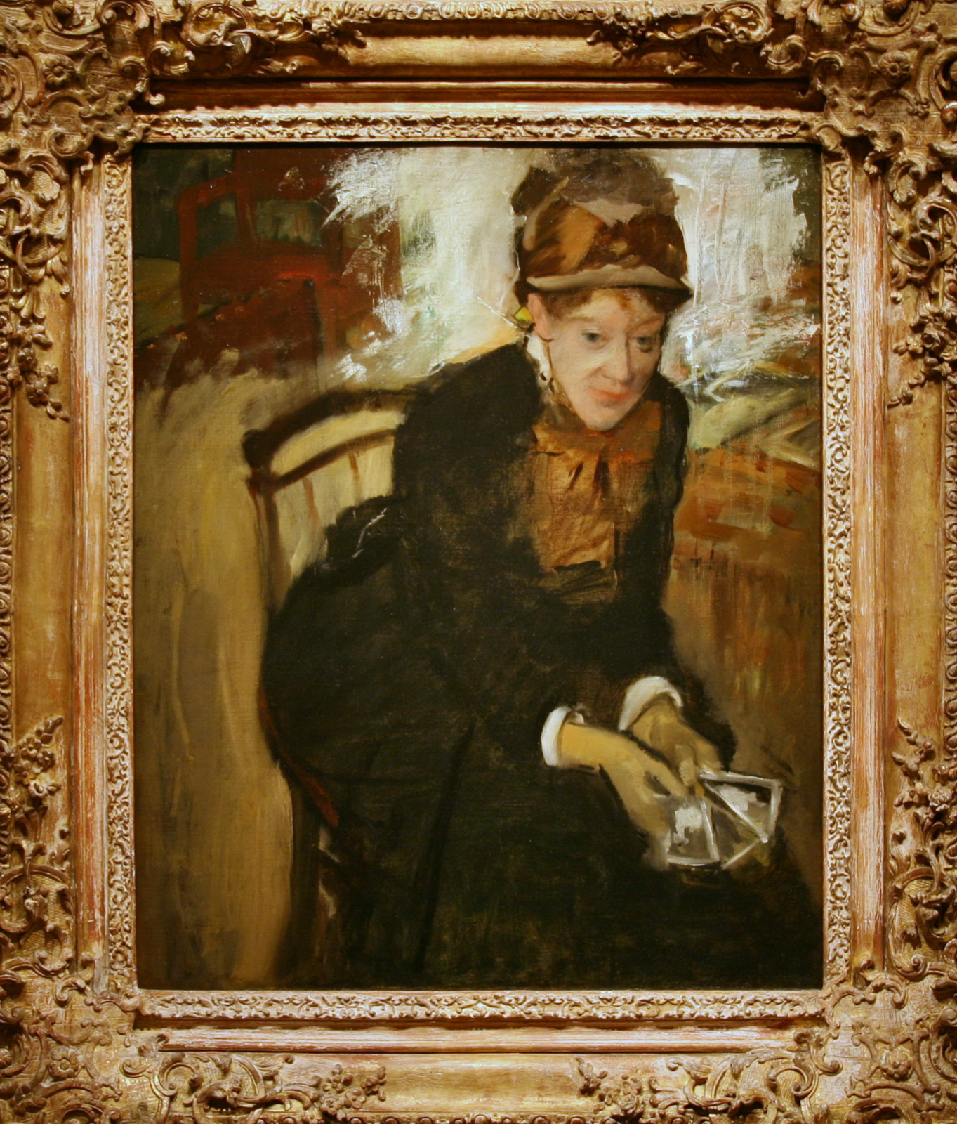 Oil on canvas painting of Mary Stevenson Cassatt; size without frame 73.3×60 cm.